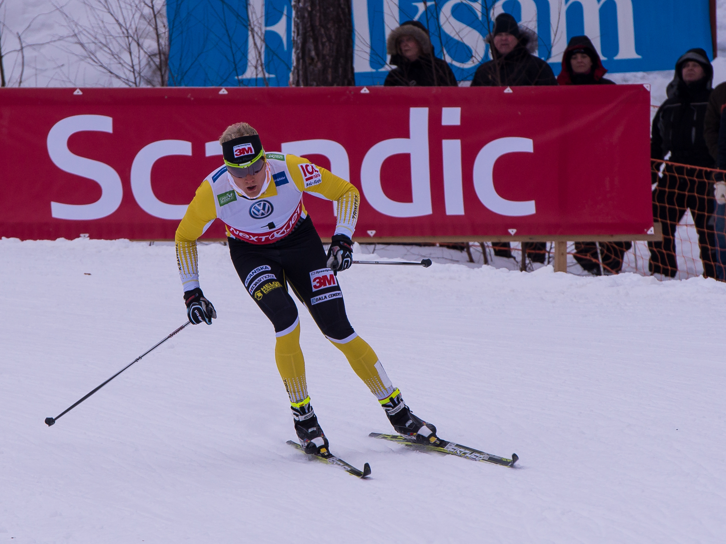 Jens Eriksson in the first quarter final of cross country skiing, sprint discipline, for men. 2013 Swedish national championships, Falun, Sweden.